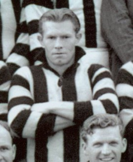 Photo of Ron Smith in 1945